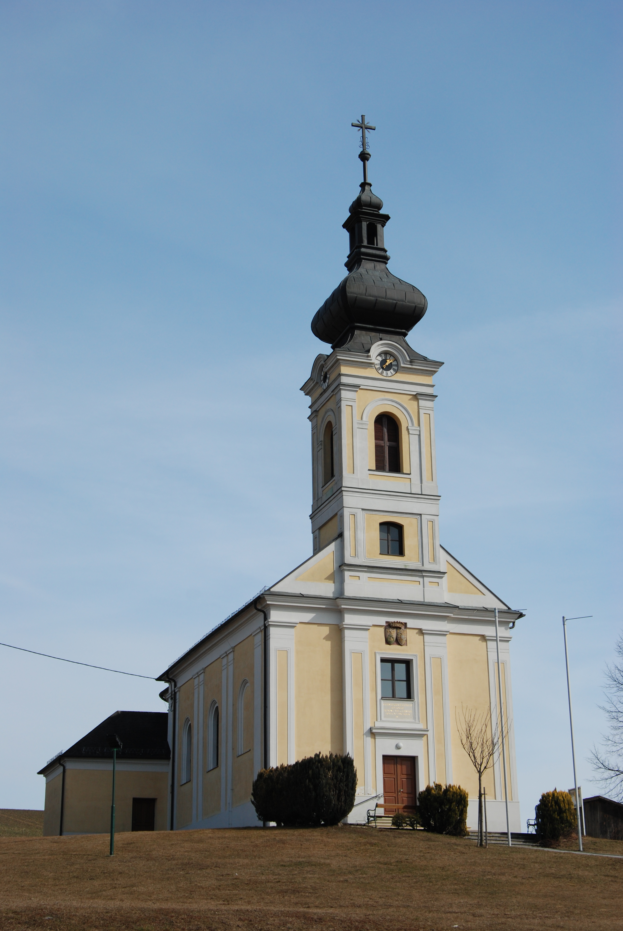 Katholische Pfarrkirche Kitzladen